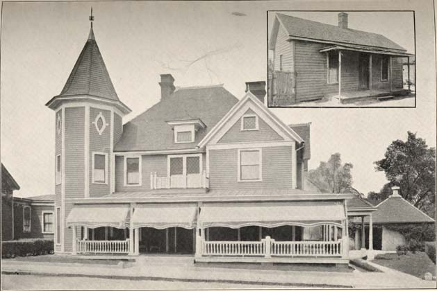 From John Merrick. A Biographical Sketch by R. McCants Andrews [Durham, N.C.: Press of the Seeman Printery, 1920]